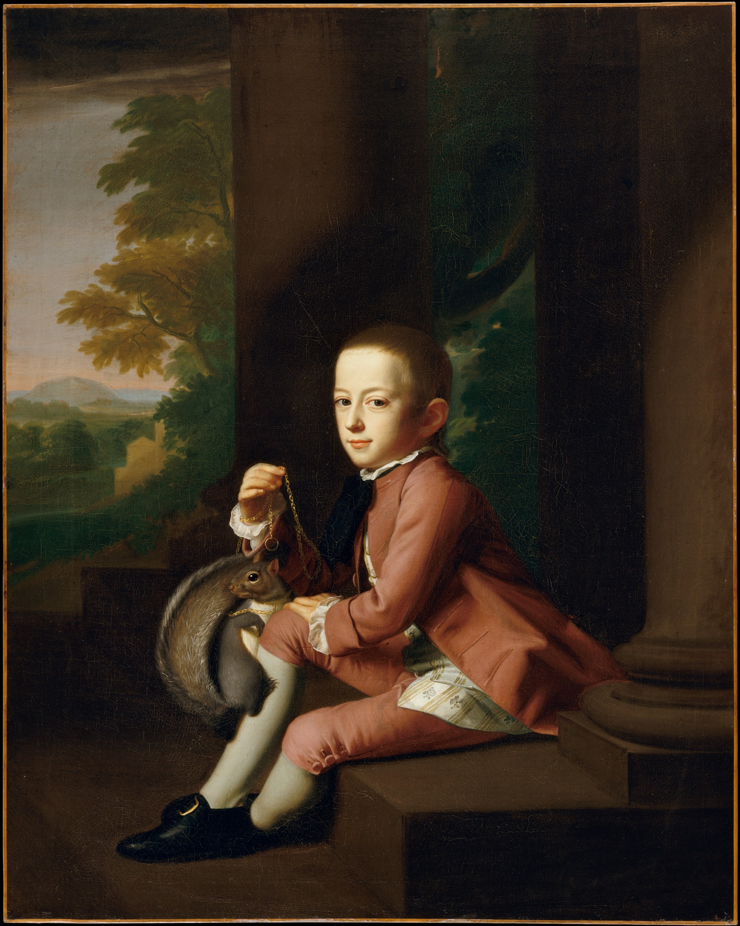 Daniel Crommelin Verplanck Artist: John Singleton Copley (American, Boston, Massachusetts 1738–1815 London) Date: 1771 Medium: Oil on canvas Dimensions: 49 1/2 x 40 in. (125.7 x 101.6 cm) Classification: Paintings Credit Line: Gift of Bayard Verplanck, 1949 Daniel Crommelin Verplanck (1762–1834) was born in New York and spent the early part of his life in the family home on lower Wall Street. He was the eldest son of Judith Crommelin and Samuel Verplanck (39.173). While attending Columbia College (formerly King's College), he married Elizabeth Johnson, daughter of the president of Columbia. They had two children. Following her death in 1789, Verplanck married Ann Walton, with whom he had seven children. They lived on Wall Street until 1803 and then moved to Fishkill-on-Hudson, New York. He represented Dutchess County in Congress from 1803 until 1809. The portrait was painted in 1771 when Daniel was nine years old. The background has traditionally been identified as a view from the Verplanck country house at Fishkill, looking toward Mount Gulian.